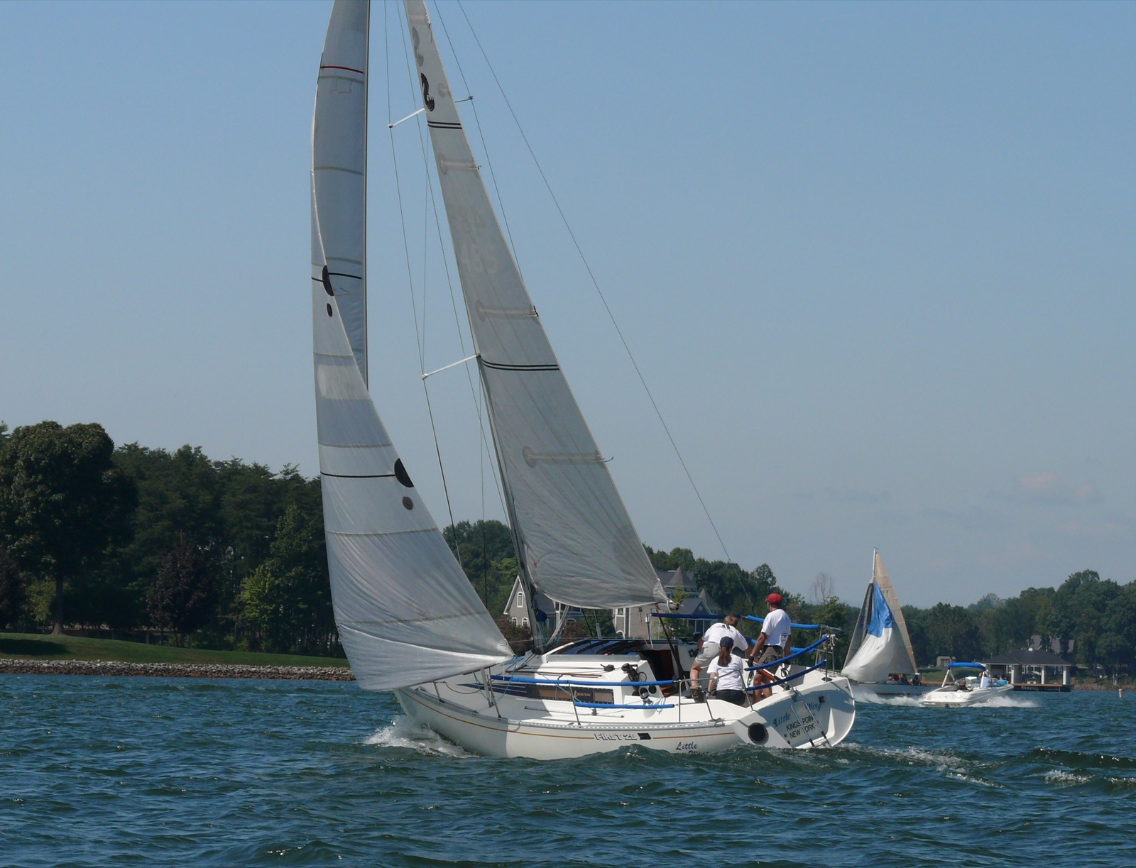 The first race started with winds better than predicted but that changed.